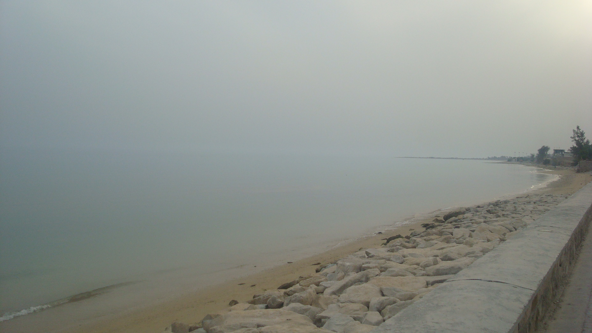 Siraf beach - Persian Gulf